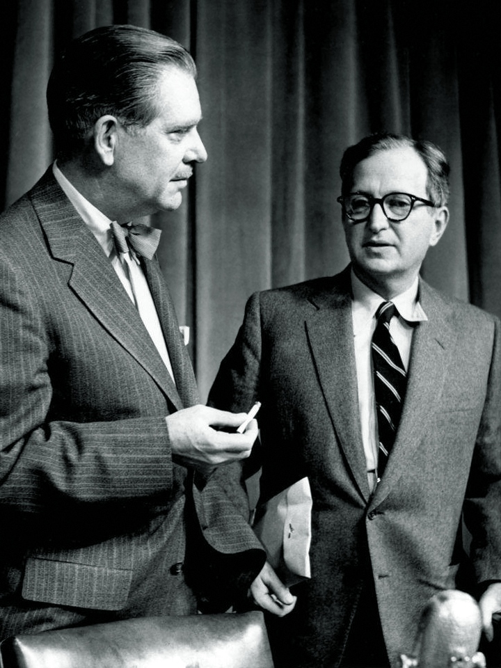 Photo of Ned Brooks and Lawrence Spivak from the radio and television program Meet the Press. Brooks (left) was the program's moderator when the photo was taken, while Spivak was the show's producer and a permanent show panelist. Spivak became the program's moderator after Brooks' tenure.